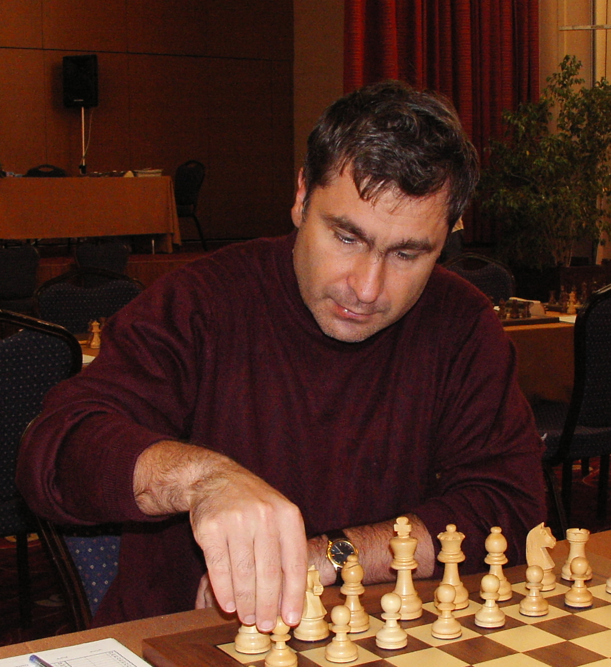 GM Vasyl Ivanchuk Ukraine, EuroChess Iraklion 2007